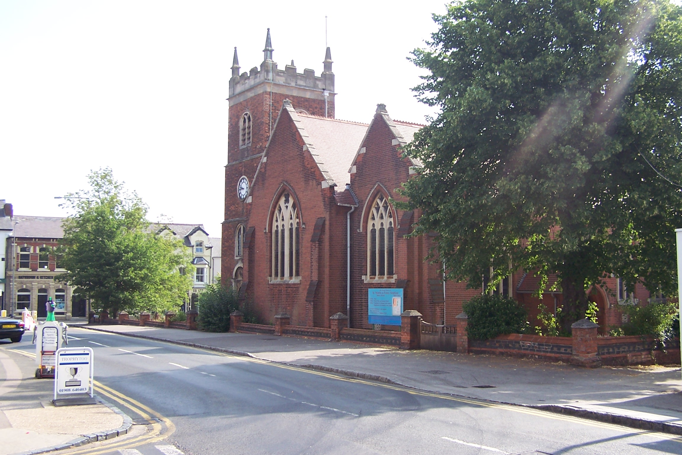 Church of England parish church of St Martin, Fenny Stratford, Buckinghamshire. St Martin's was built in 1724-30 and enlarged in 1823, 1865-66 and 1907